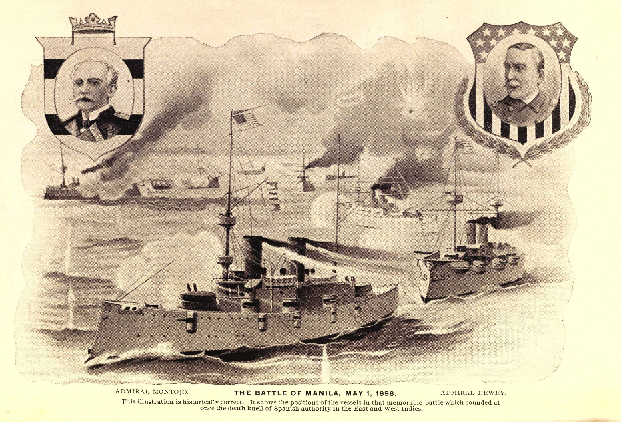 Engraving of the Battle of Manila Bay with the respective commanders depicted at the top corners.